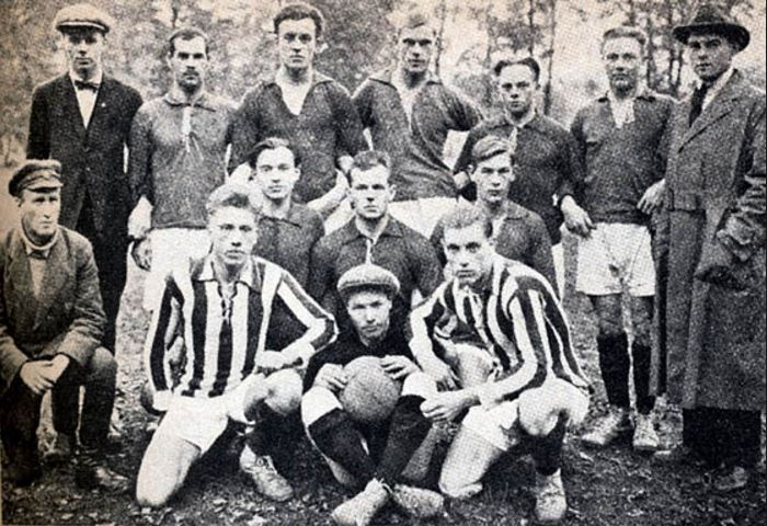 Finnish Workers' Sports Federation football squad in Saint Petersburg, Russia in 1922. This was the first group of foreign athletes visiting Soviet Russia after the 1917 October Revolution.